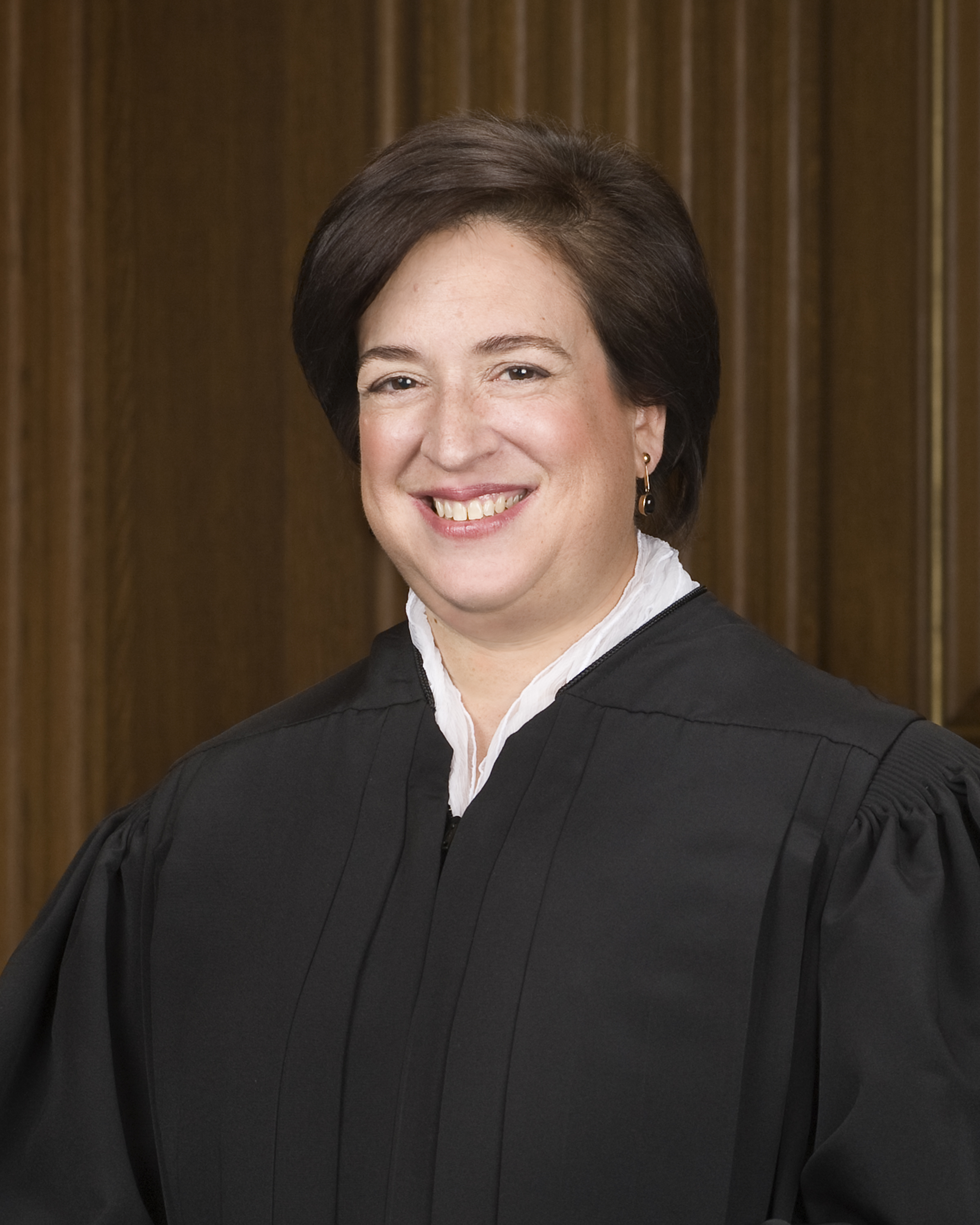 Elena Kagan, Associate Justice of the Supreme Court of the United States